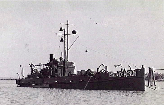 The boom defence vessel HMAS Kinchela at Brisbane in 1944